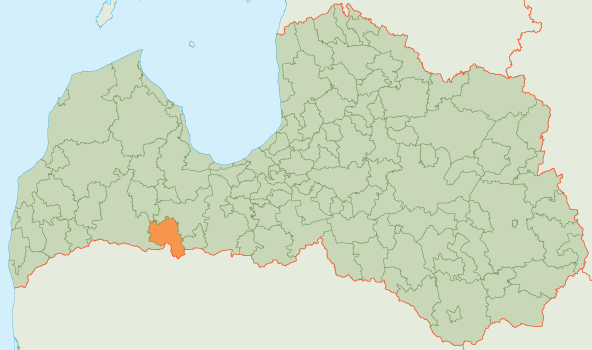 Auce Map